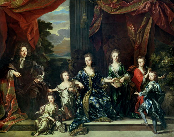 John Churchill with her family